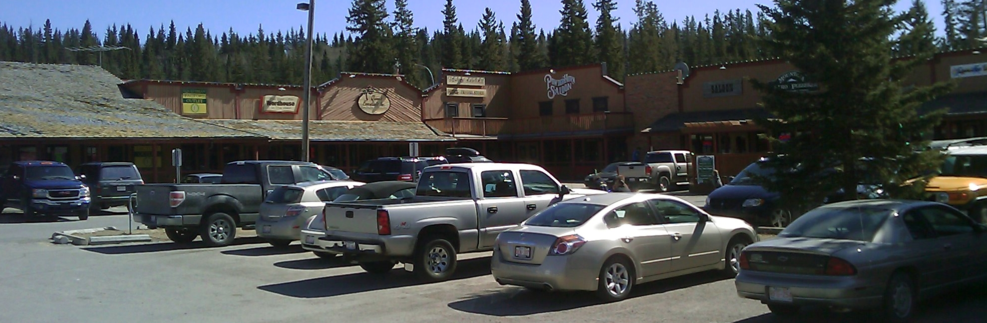 Strip mall in Bragg Creek, Alberta, Canada